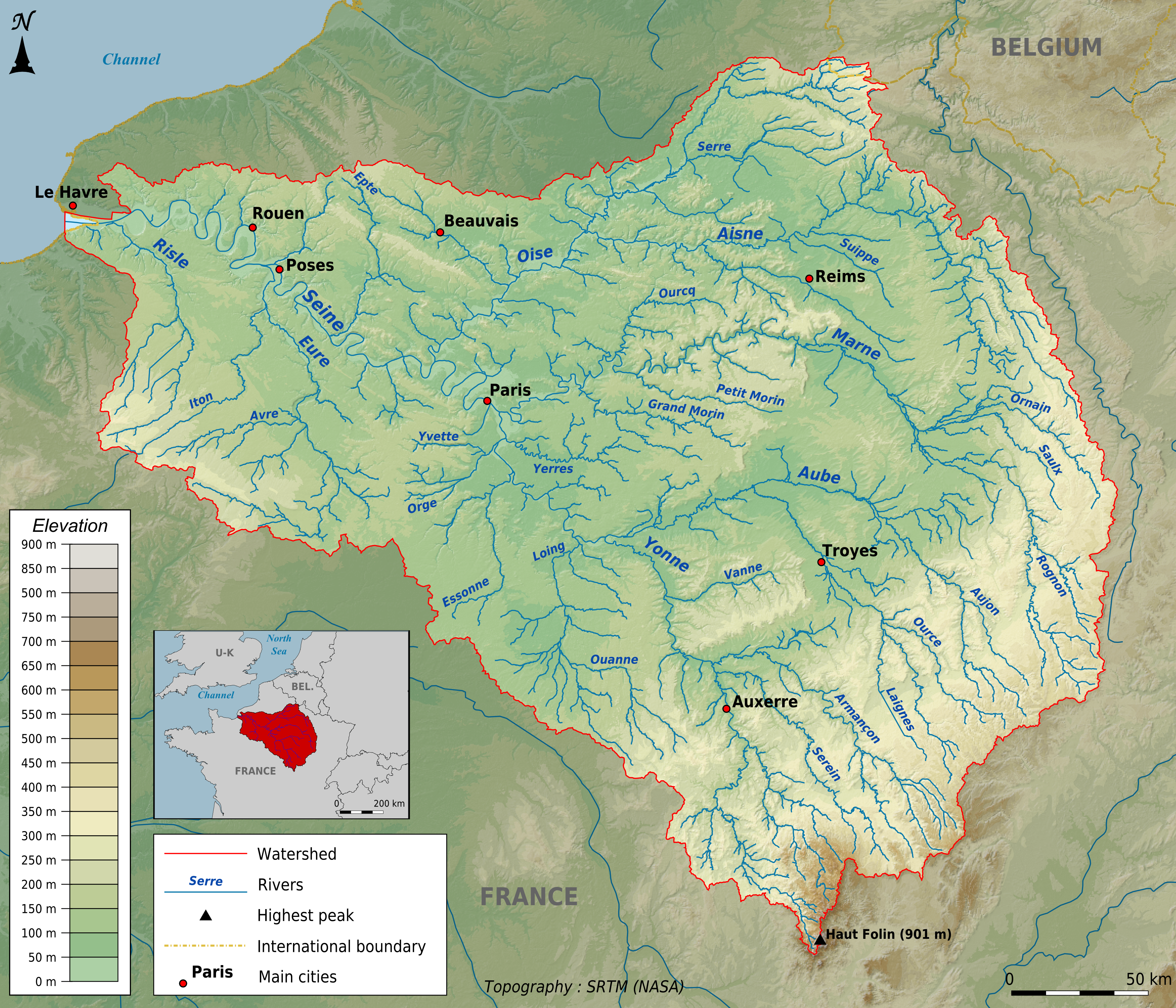 Topographic map of the Seine basin in English, in png format, Lambert 93 projection Approximate geographic limits of the map (30" close) : NW corner : 50° 02' N – 00° 24' W SE corner : 47° 02' N – 05° 10' E